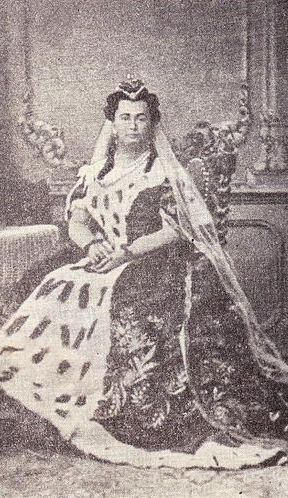 Istoria Teatrului in Romania, Editura Academiei, 1973